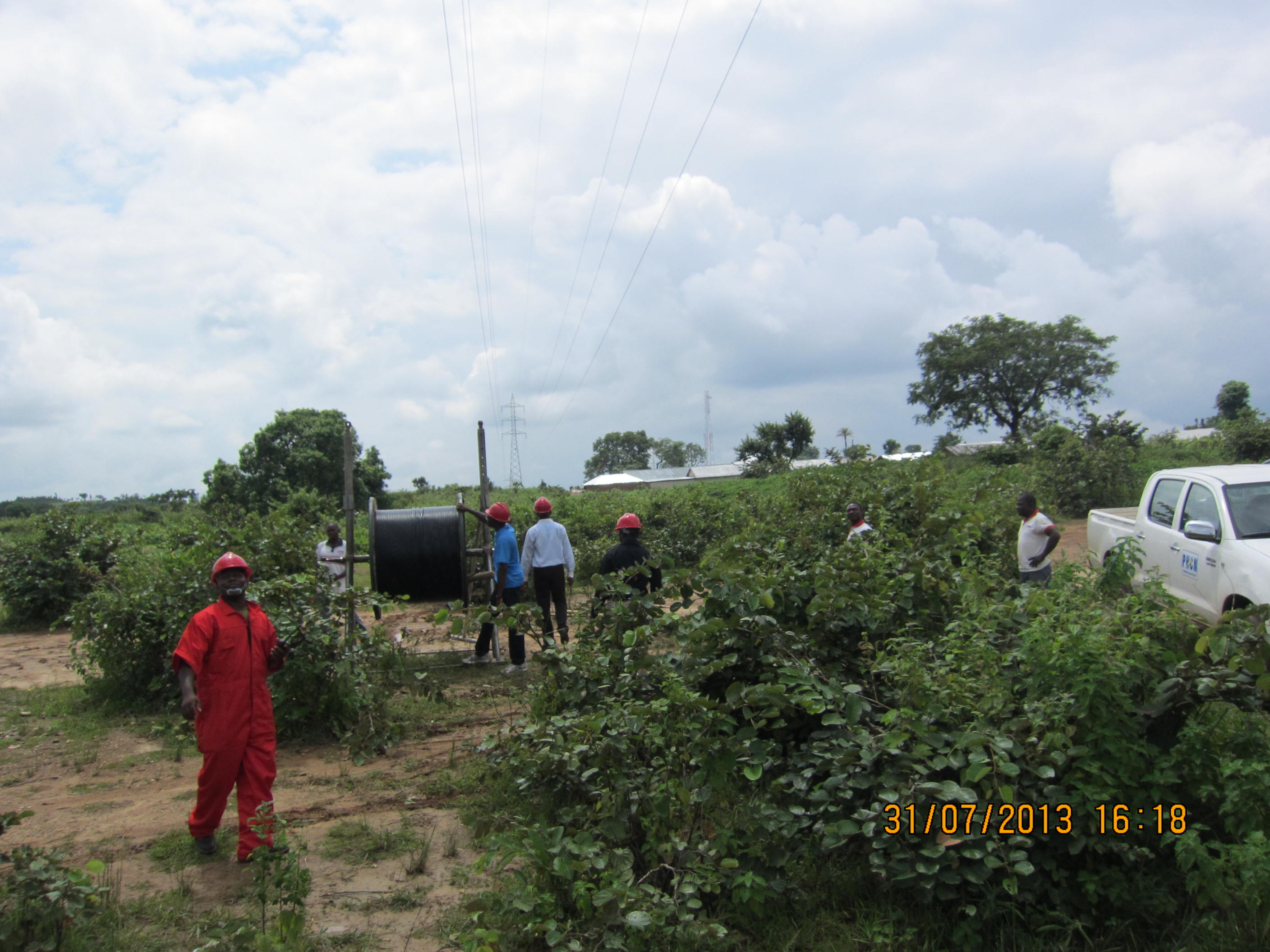 Phase3 Engineering Team at Suleja (Niger State) on fiber installation exercise in July 2013